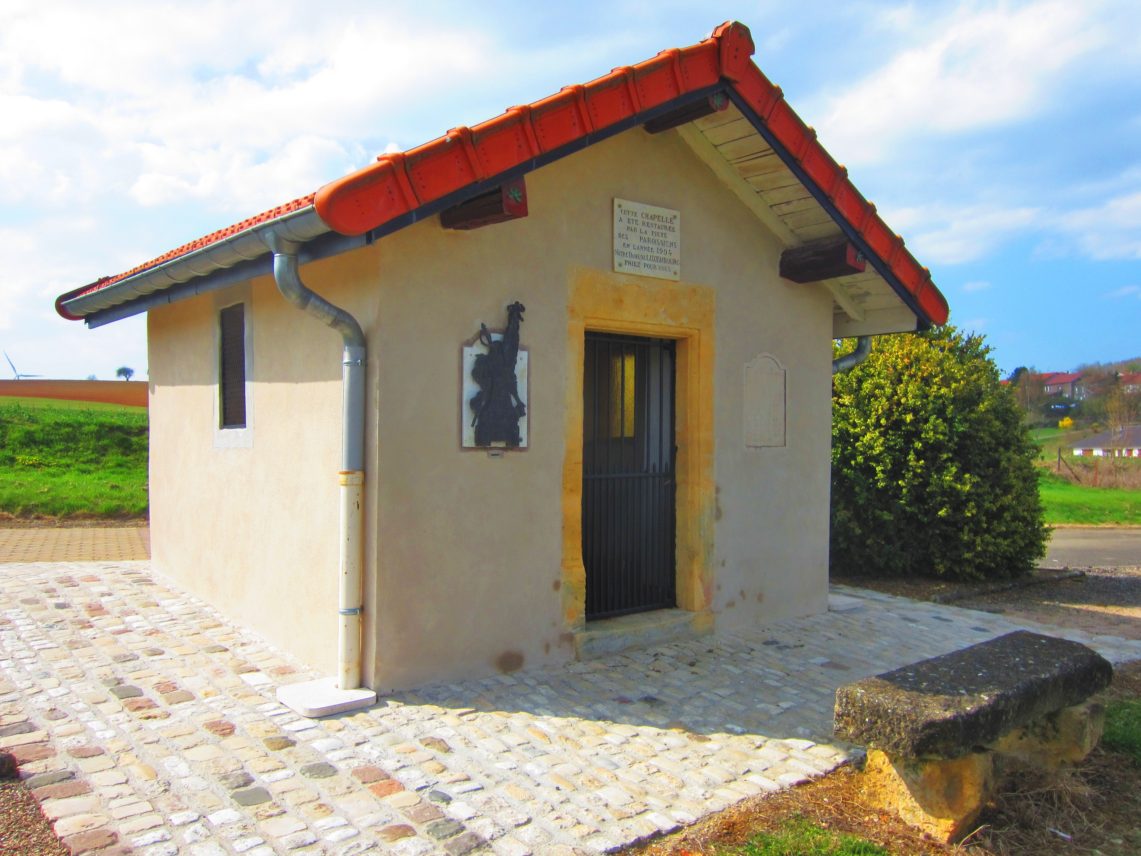 Fresnois Montagne chapel